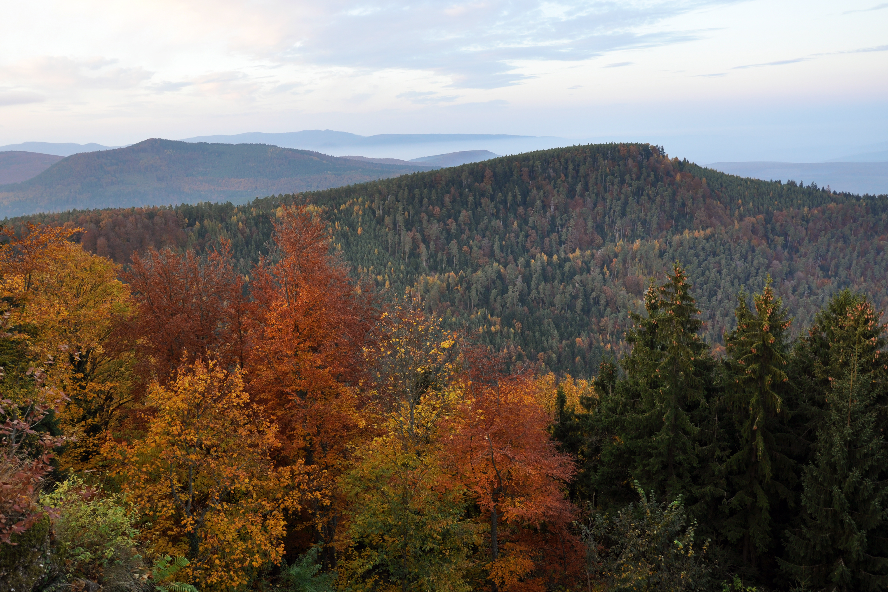 At the foreground, the forest of the Mont Saint-Odile, and the other mounts at the background, during Autumn and at sunset.